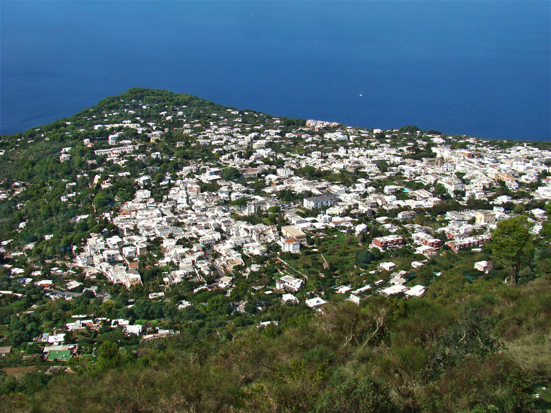 Capri, Campania, Italy. View of the town of Anacapri from the chairlift leading to Monte Solaro.